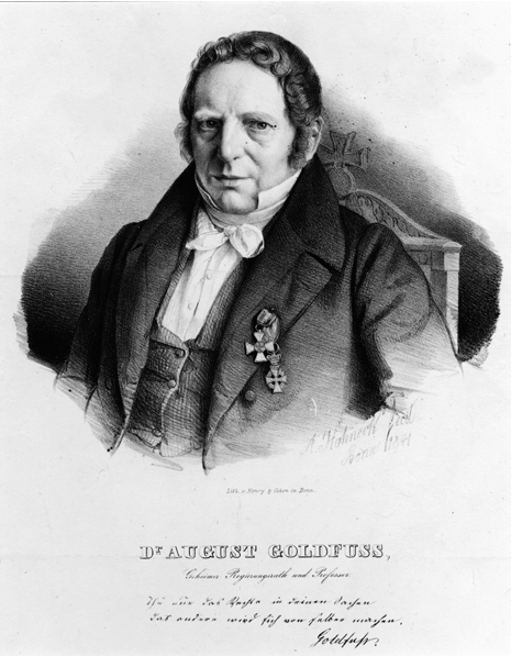 Portrait of Georg August Goldfuß. Lithograph by Adolf Hohneck. (Stadtarchiv und Stadthistorische Bibliothek Bonn (City Archives and Historical City Library of Bonn))